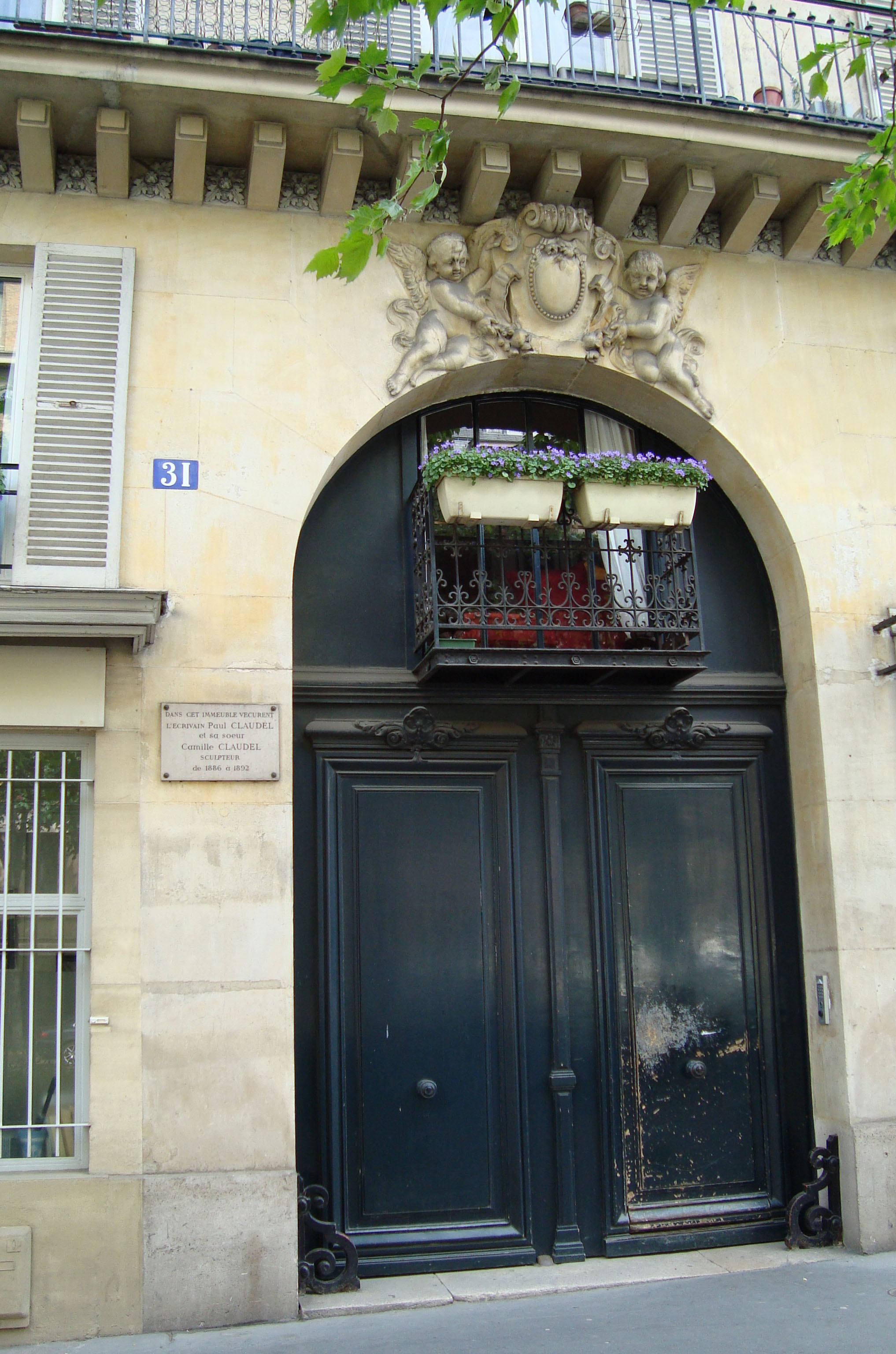 31, boulevard du Port-Royal, building where Paul Claudel and his sister Camille Claudel lived in Paris from 1886 to 1892.